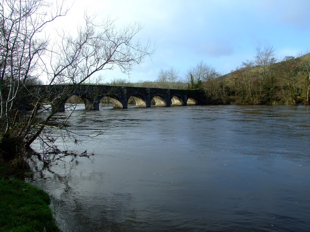 The Bridge, Inishcarra, County Cork The bridge crosses the River Lee, just West of Ballincollig, one of the fastest growing towns in Ireland.